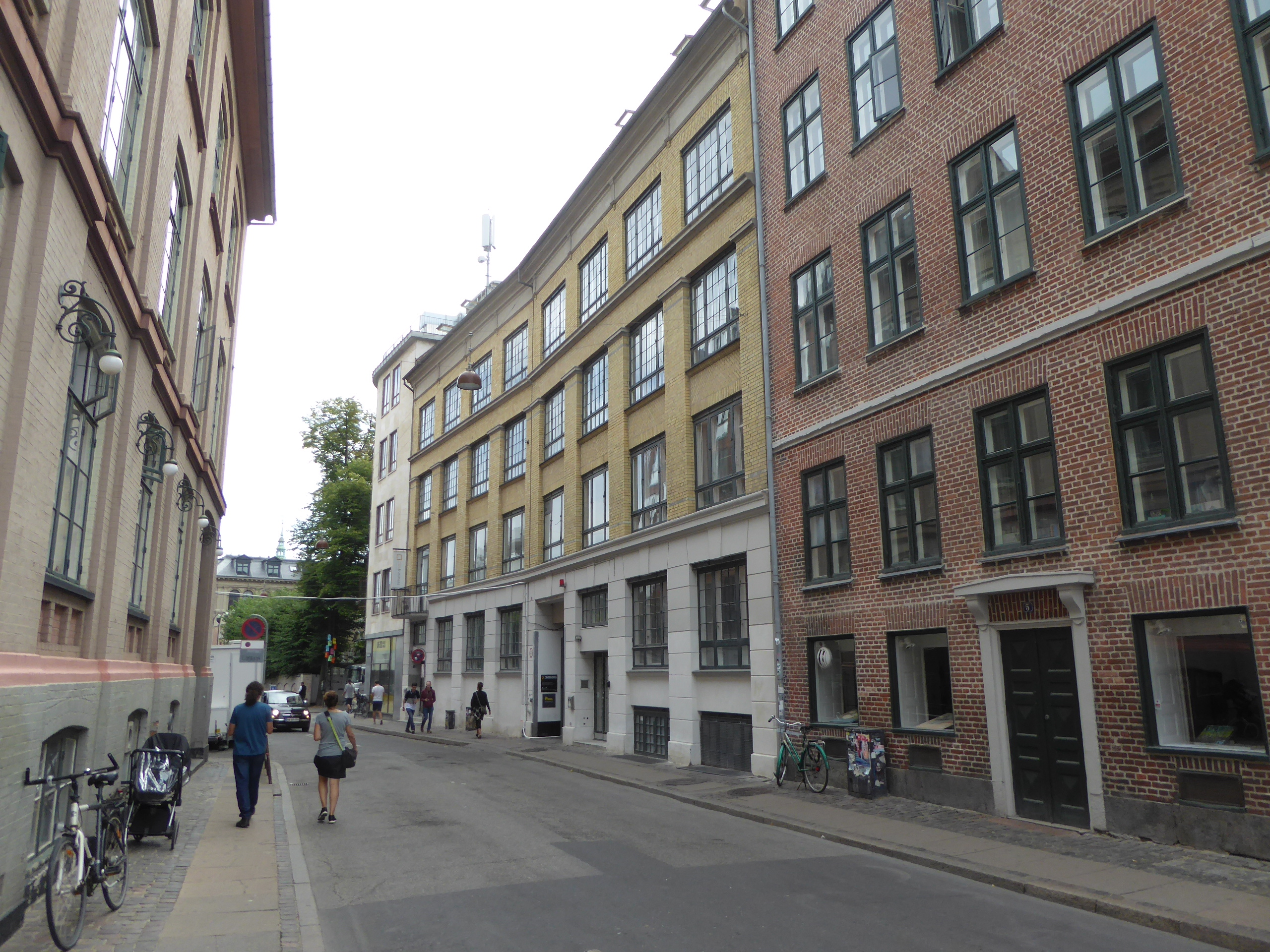 The street Suhmsgade in Indre By in Copenhagen.